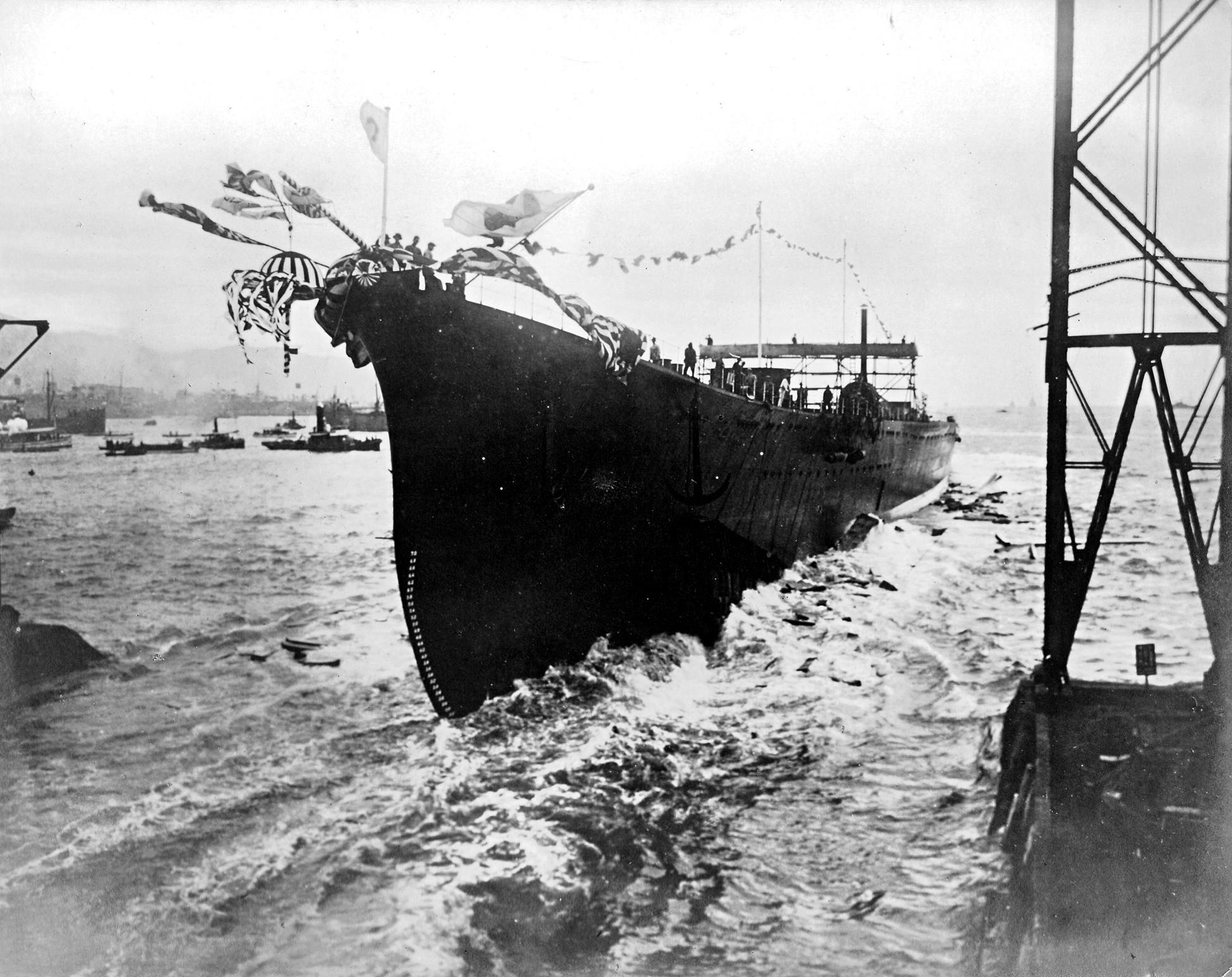 Launching japanese heavy cruiser Maya.